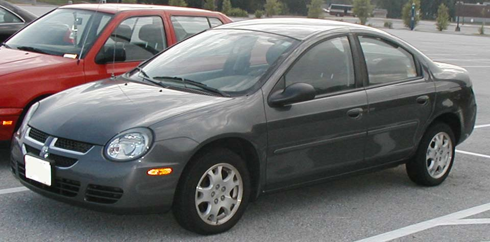 2003-2005 Dodge Neon photographed in USA.